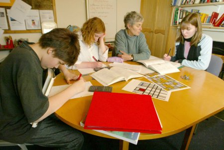 Mathematics learning at The Read Balloon Cambridge